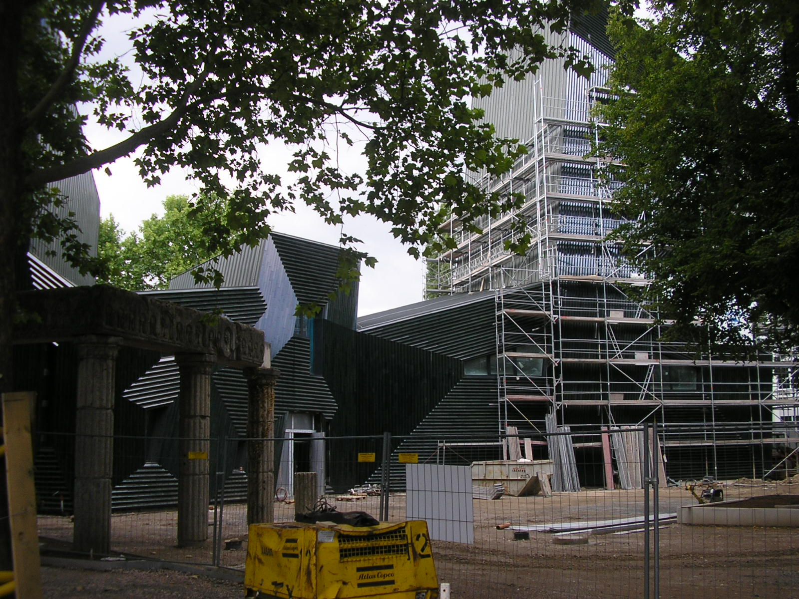 The new Synagogue in Mainz in the last days under construction.